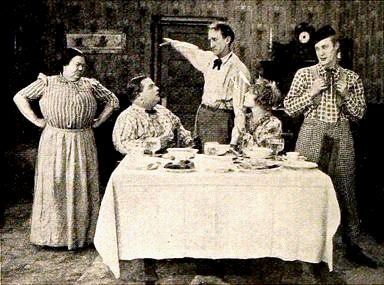 Still from the American film Love (1919 film) with Kate Price, Roscoe Arbuckle, Frank Hayes, Winifred Westover, and Al St. John, on page 20 of the June 1919 Film Fun. The still caption states: "The father dismisses Fatty in favor of the suitor at the extreme right."